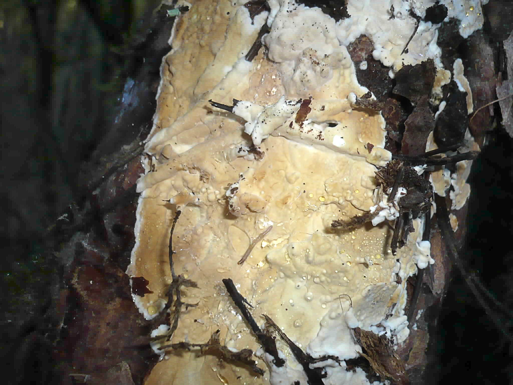 Fruit body of the resupinate fungus Dacryobolus karstenii. Photographed growing on pine in Gouffre de Cabouy, Magés, France.